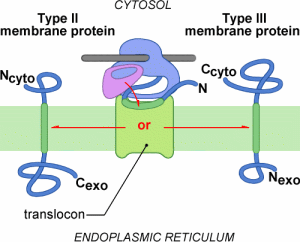 Step 2 of cotranslational membrane insertion of type II and type III proteins